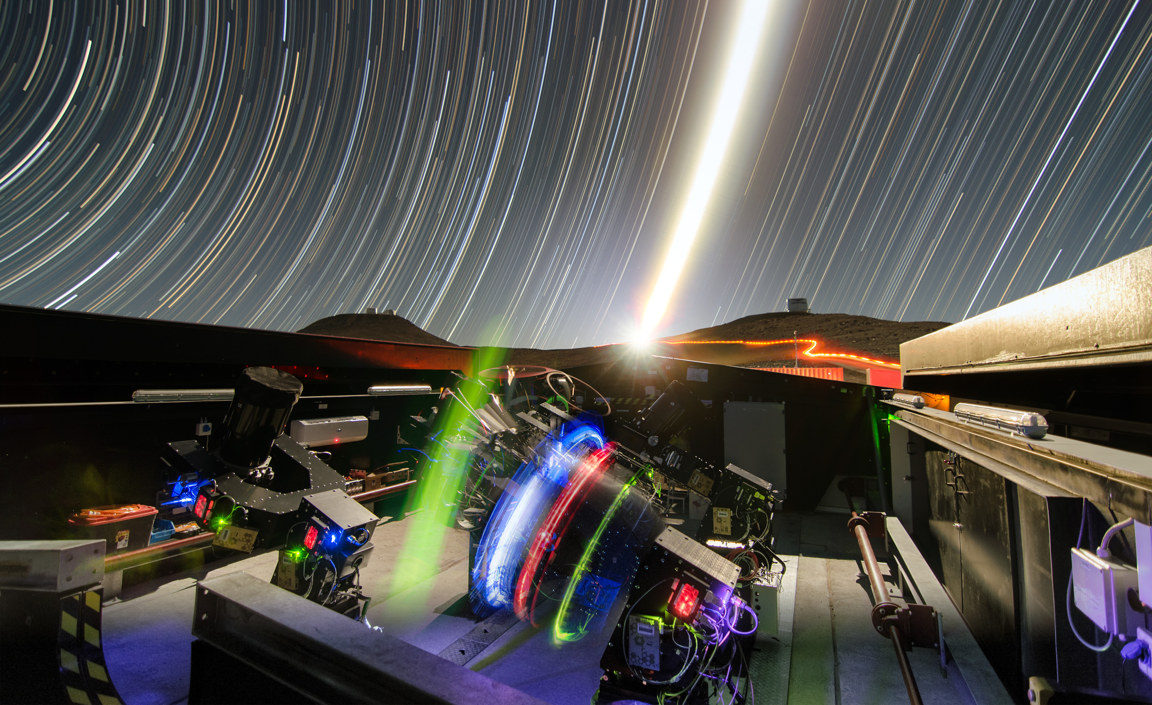 The Next-Generation Transit Survey (NGTS) is located at ESO's Paranal Observatory in northern Chile. This project will search for transiting exoplanets — planets that pass in front of their parent star and hence produce a slight dimming of the star's light that can be detected by sensitive instruments. The telescopes will focus on discovering Neptune-sized and smaller planets, with diameters between two and eight times that of Earth.This night time long-exposure view shows the telescopes during testing. The very brilliant Moon appears in the centre of the picture and the VISTA (right) and VLT (left) domes can also be seen on the horizon.